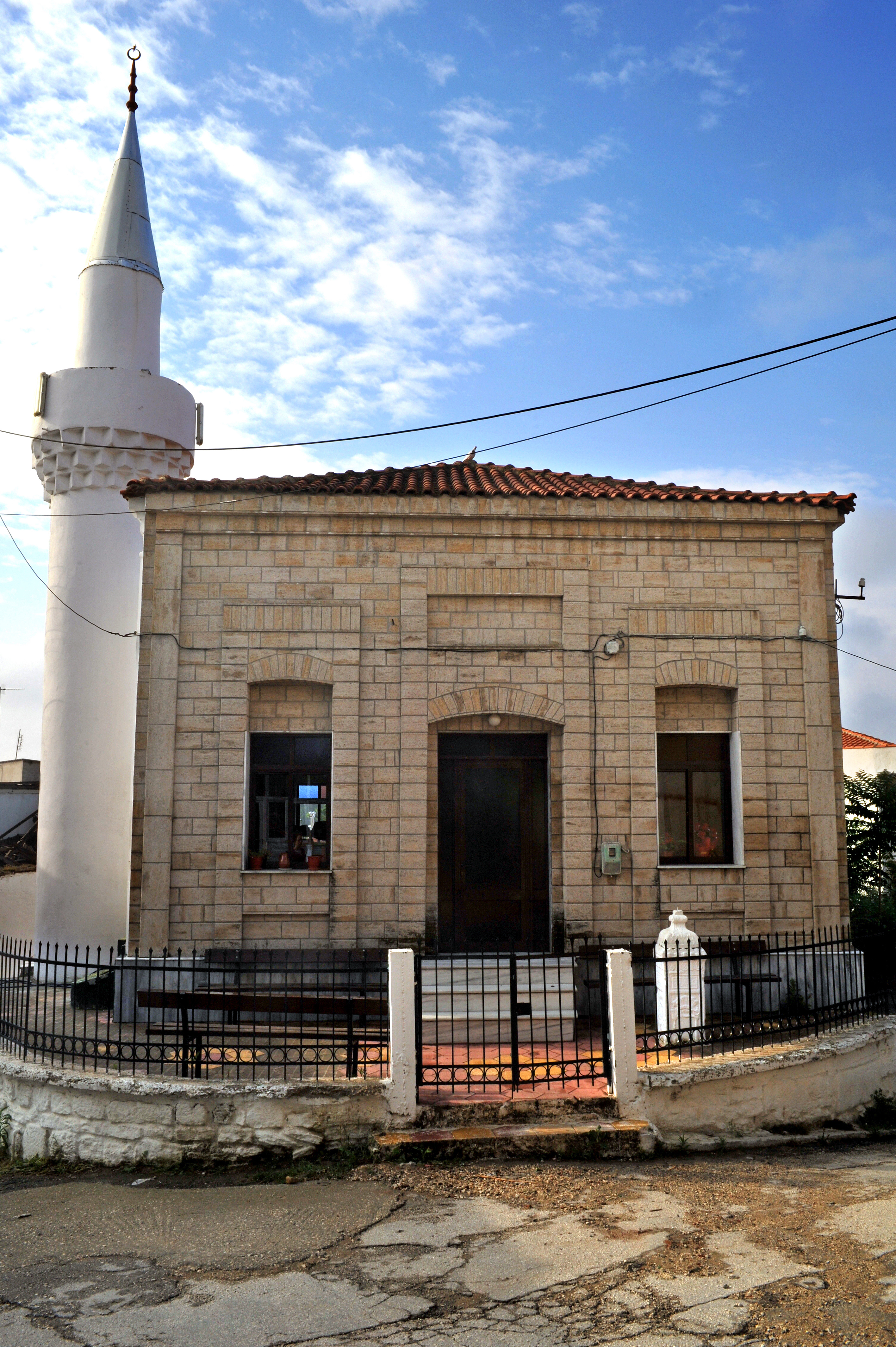 Alatza or Sandrivan Mosque - Didymoteicho, West Thrace, Greece.